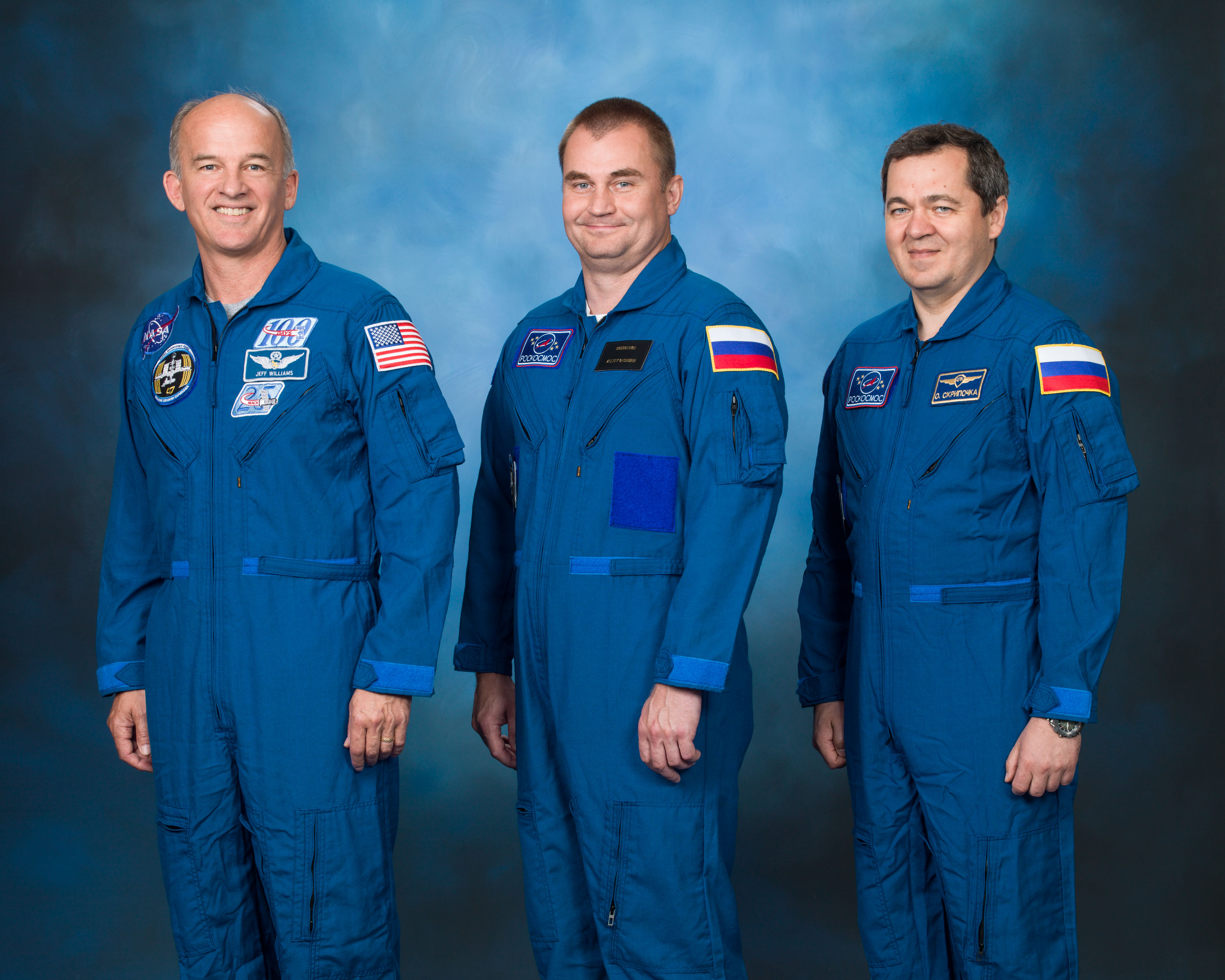 Official Expedition 47 crew portrait with 46S crew (Jeff Williams, Aleksei Ovchinin, Oleg Skripochka) NASA astronaut Jeff Williams and cosmonauts Alexey Ovchinin and Oleg Skripochka of Roscomos (Russian Federal Space Agency) will launch to the space station aboard a Soyuz TMA-20M spacecraft March 18, 2016 from the Baikonur Cosmodrome in Kazakhstan.